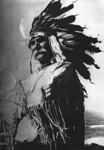 Hoxie Simmons, a Rogue River Indian Making the River : [1] Reference of Jimi Simmons